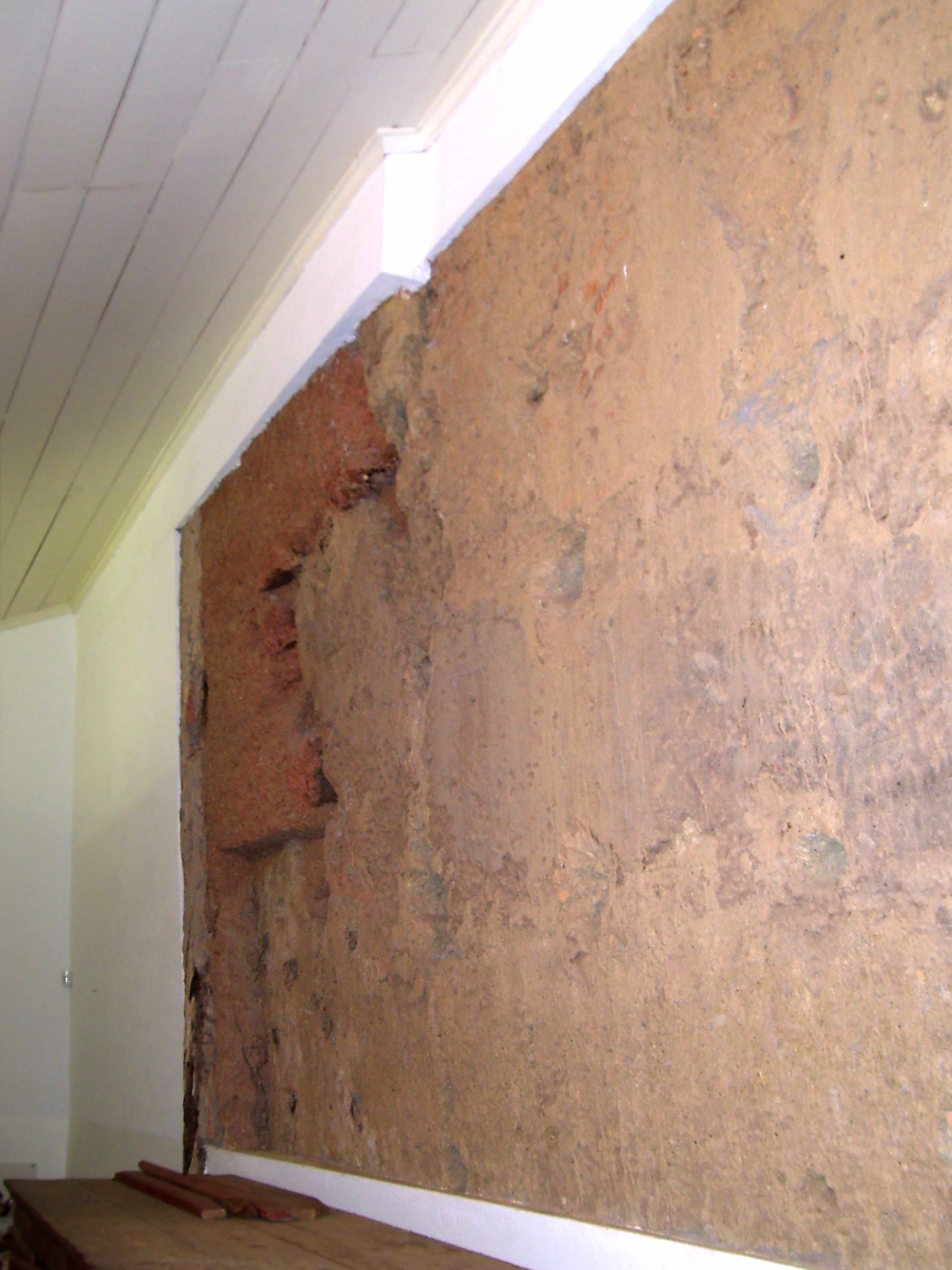 Mud wall and stone-canga, in the church Our Lady of the Rosary, held without plaster to show the material of which it is made and the changes for which happened over the centuries. Cuiabá, Mato Grosso, Brazil.